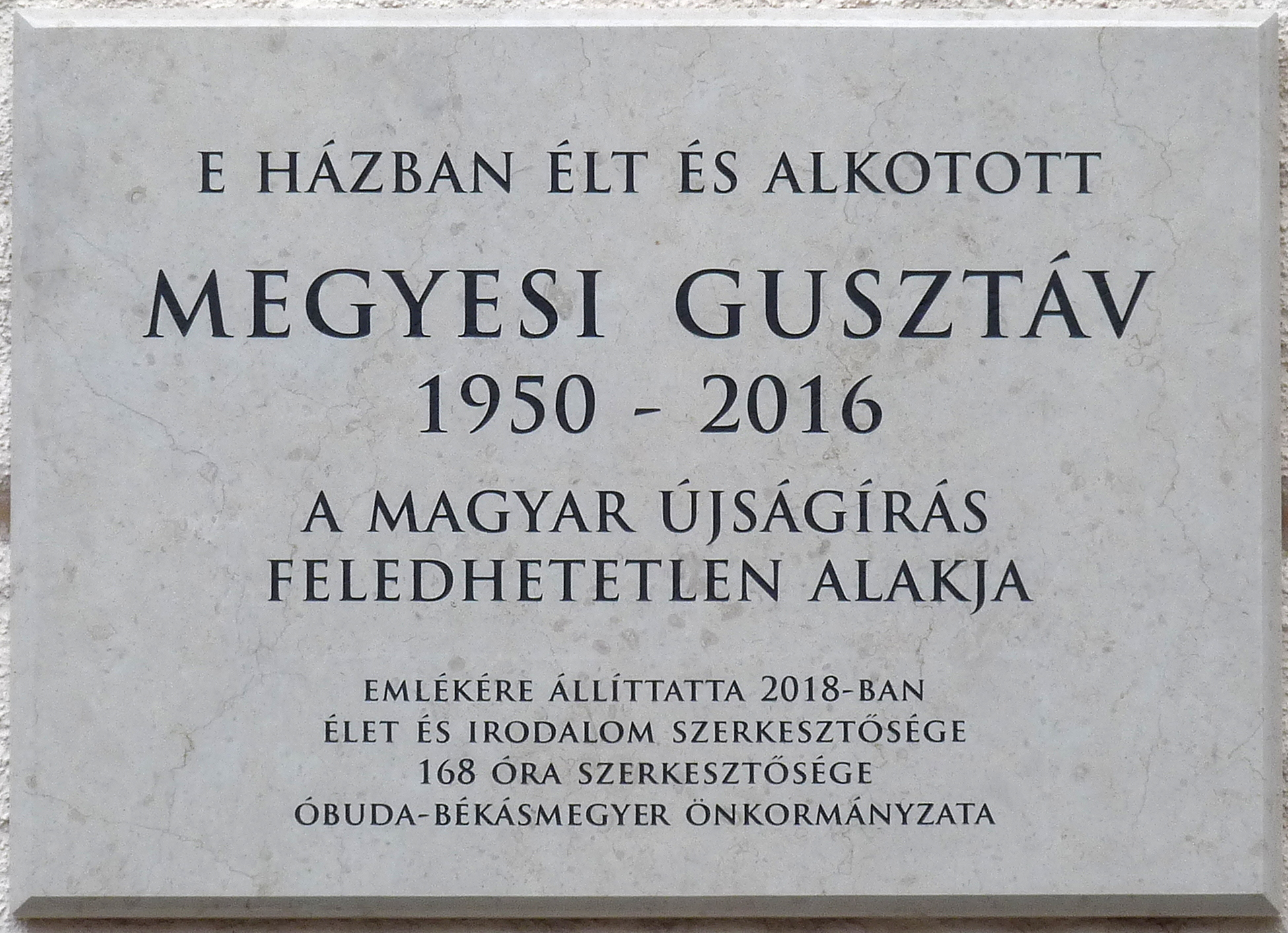 Commemorative plaque to Mr. Gusztáv Megyesi (1950–2016) Hungarian journalist and publicist. It was affixed to the wall of his former home and unveiled on 8 April 2018. (Budapest, District III, Fő Square Nr 2)